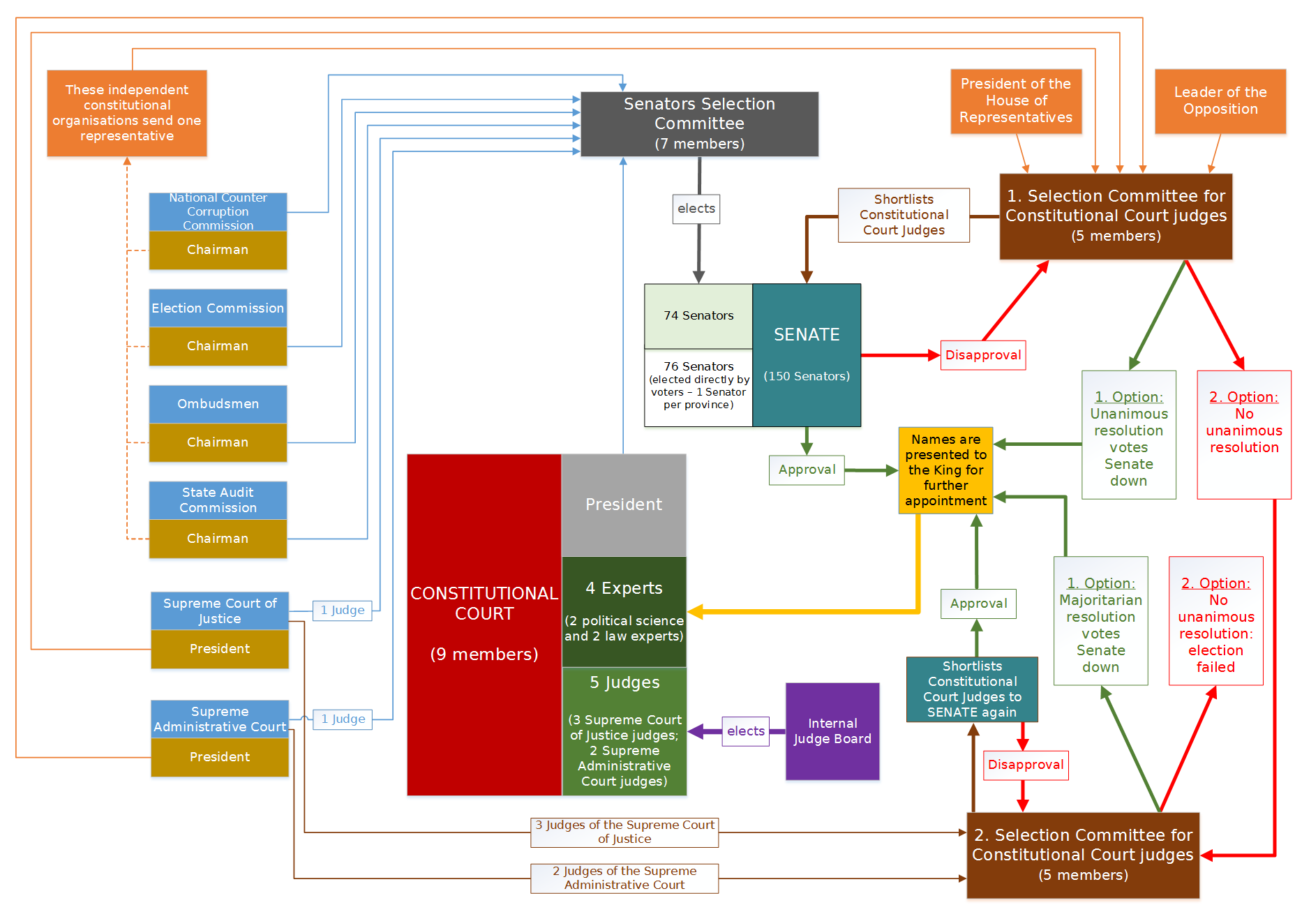 The diagram shows the composition of the Constitutional Court of Thailand under the 2007 Constitution of Thailand.